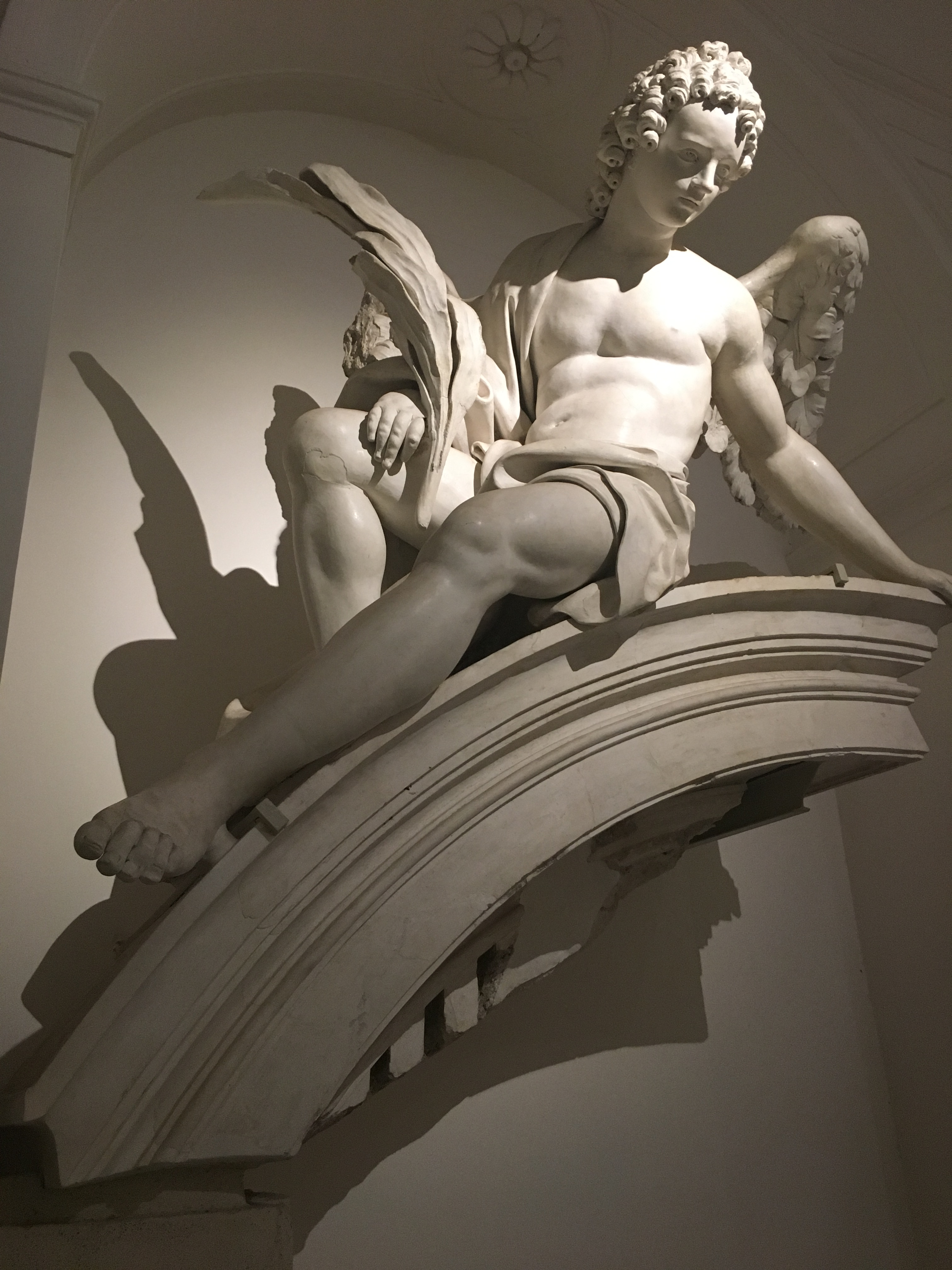 Giacomo Serpotta (Palermo 1656-1732) Angel with palm 1703-1704 approx. Stucco Origin: Palermo, Church Chiesa delle Stimmate di San Francesco